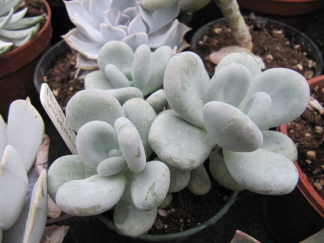 Pachyphytum werdermannii